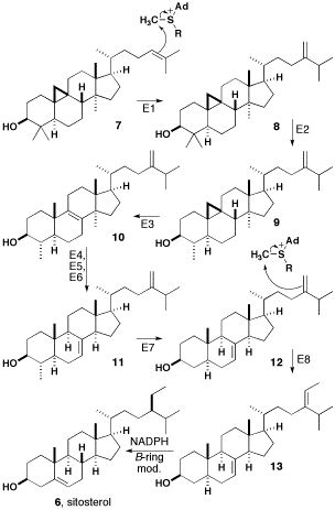 Biosynthsitosterol